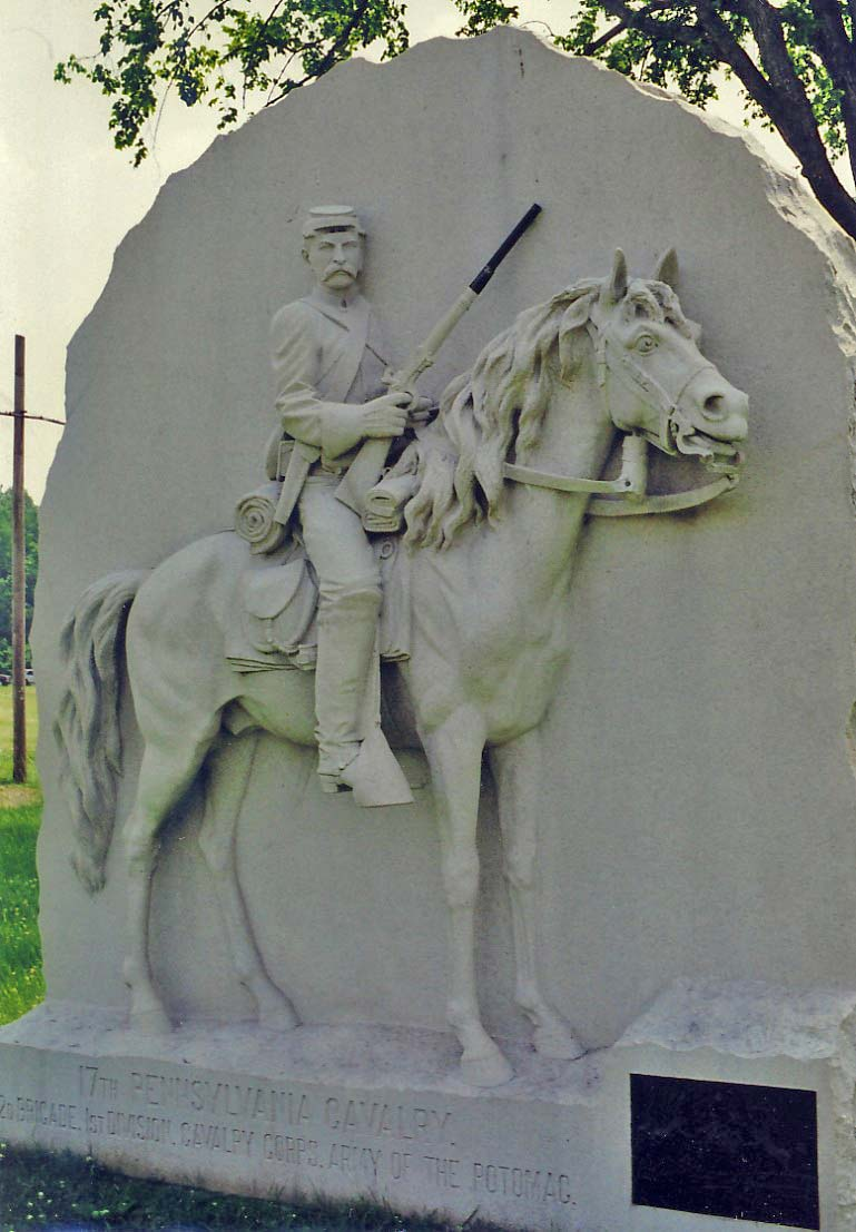 17th PA Cavalry monument at Gettysburg battlefield, 1889